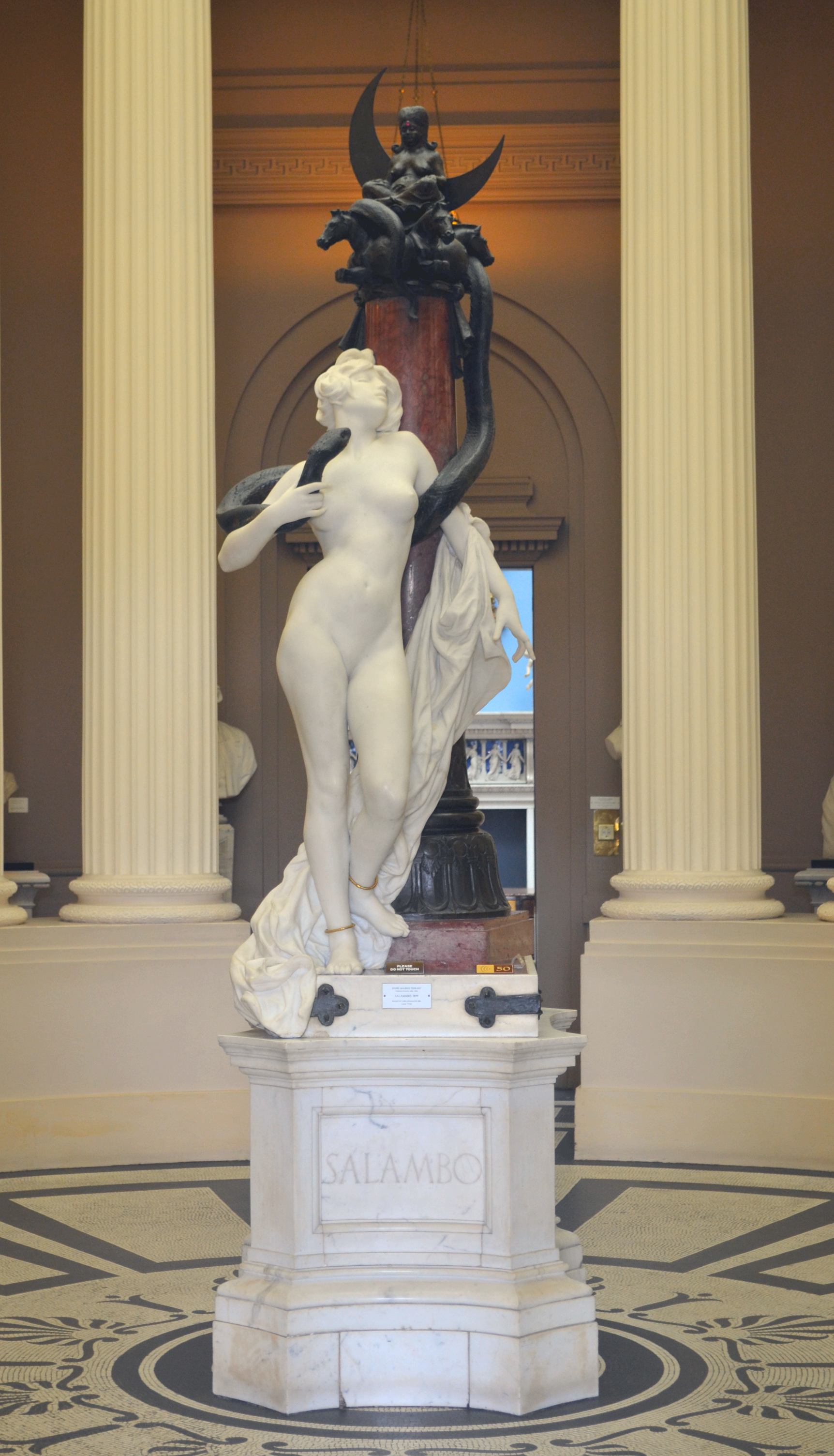 Official description here. Although the statue is officially titled Salammbo, you can clearly see that the base reads SALAMBO with only one N.